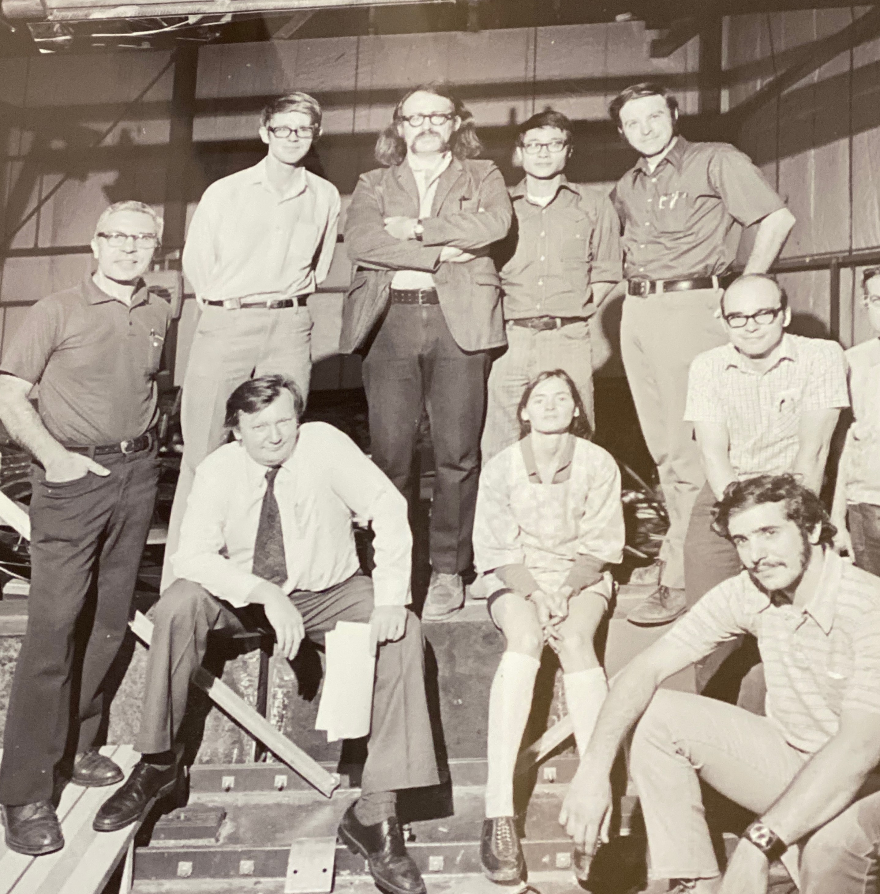 Cline and other astroparticle physicists at the 1979 Cosmic Ray Meeting in Utah